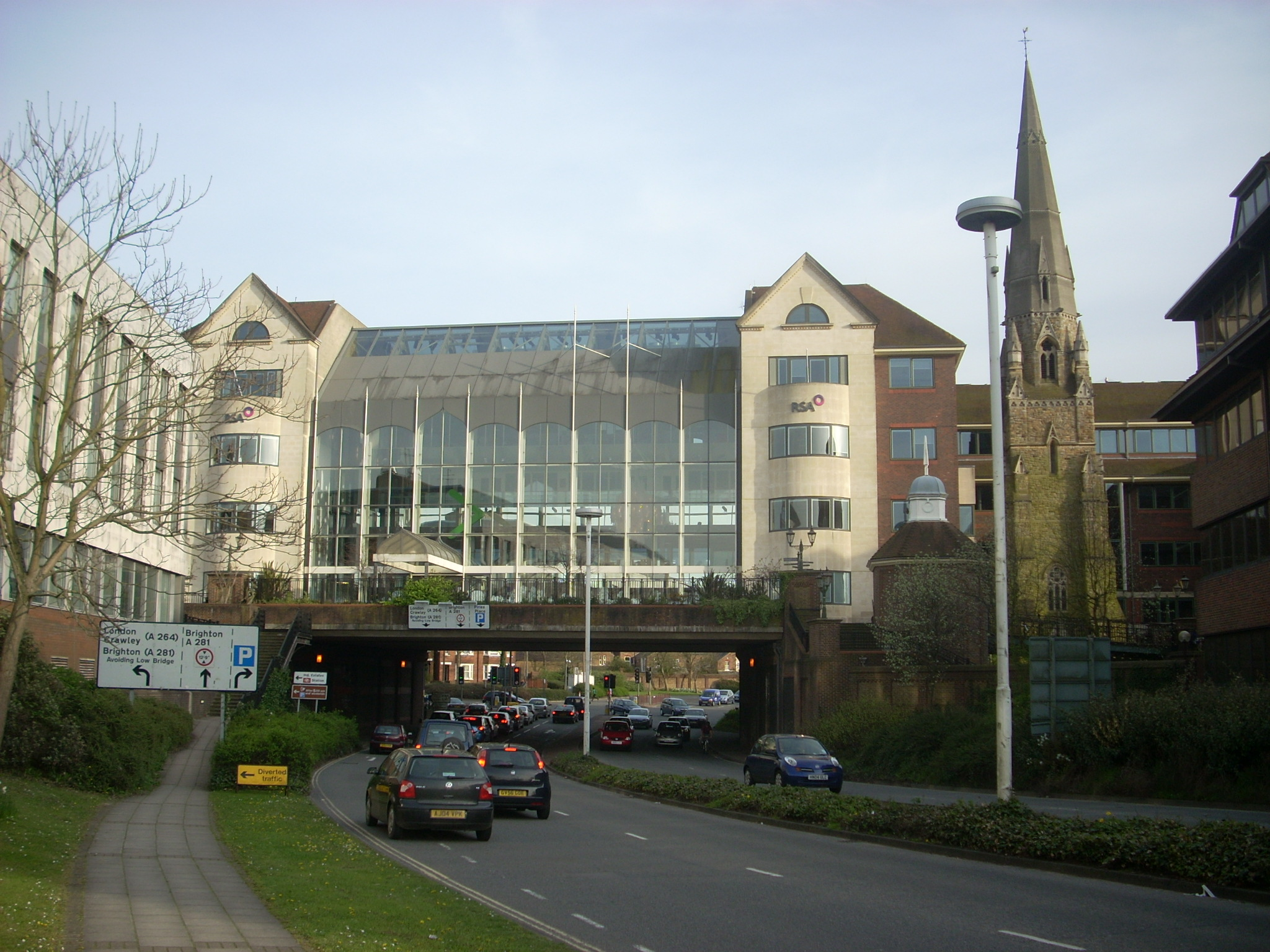 RSA Group building St Marks Court, Horsham. The isolated tower is the remains of the demolished St Marks, Carfax, at Horsham, designed by architects Habershon and Brock in 1870 to 1878. The spire was built in 1878.